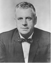 U.S. House of Representatives photograph of John Fogarty from: [1].